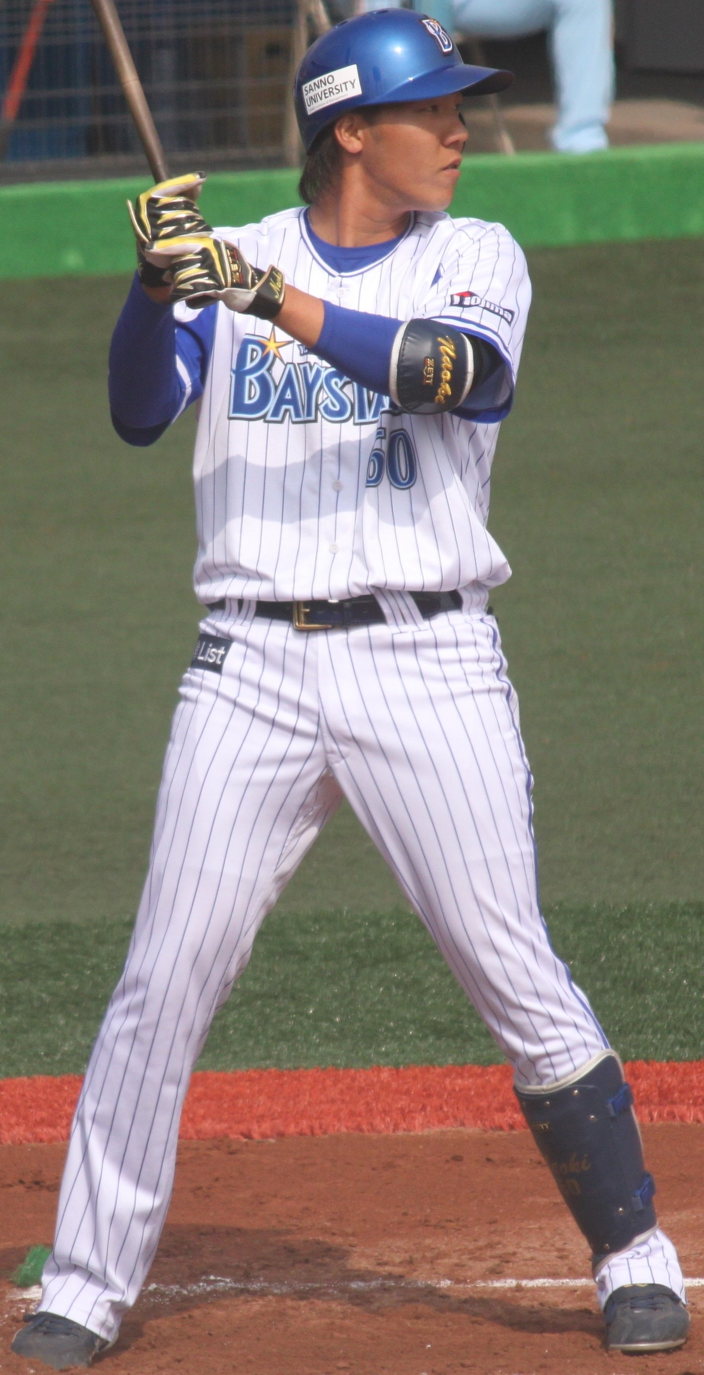 Naoki Shirane, infielder of the Yokohama DeNA BayStars, at Yokosuka Stadium